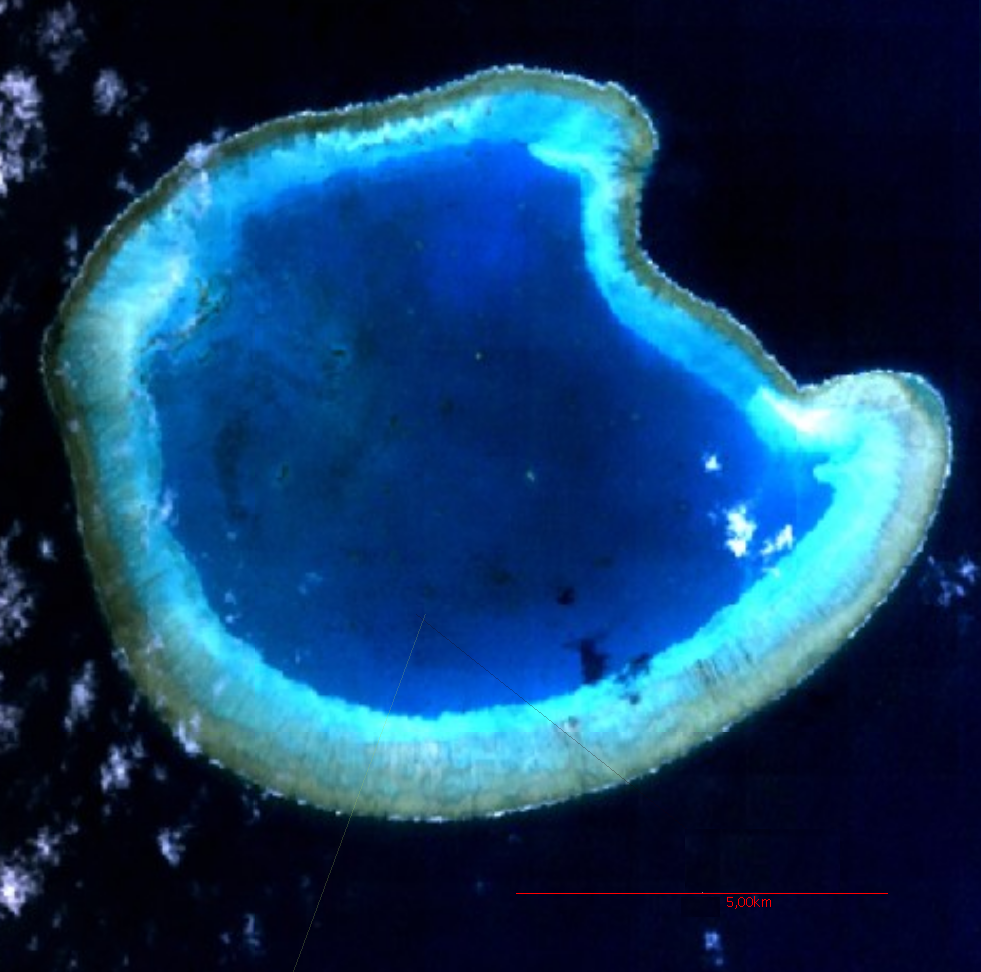 NASA World Wind screenshot (two of them pieced together vertically) of Bassas da India Atoll (French Scattered Islands in the Indian Ocean).